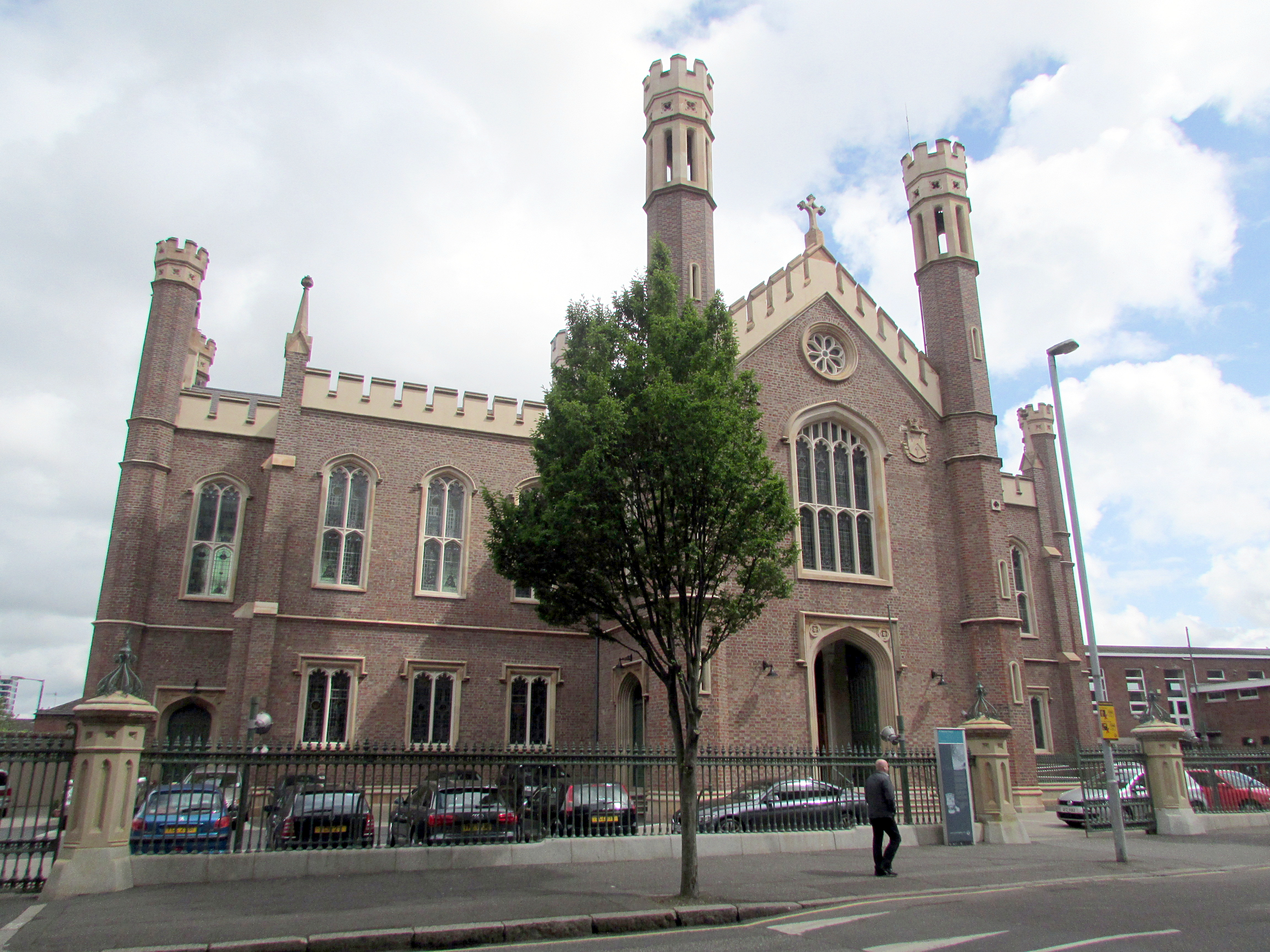 A view of St. Malachy's church building designed by T Jackson & Sons